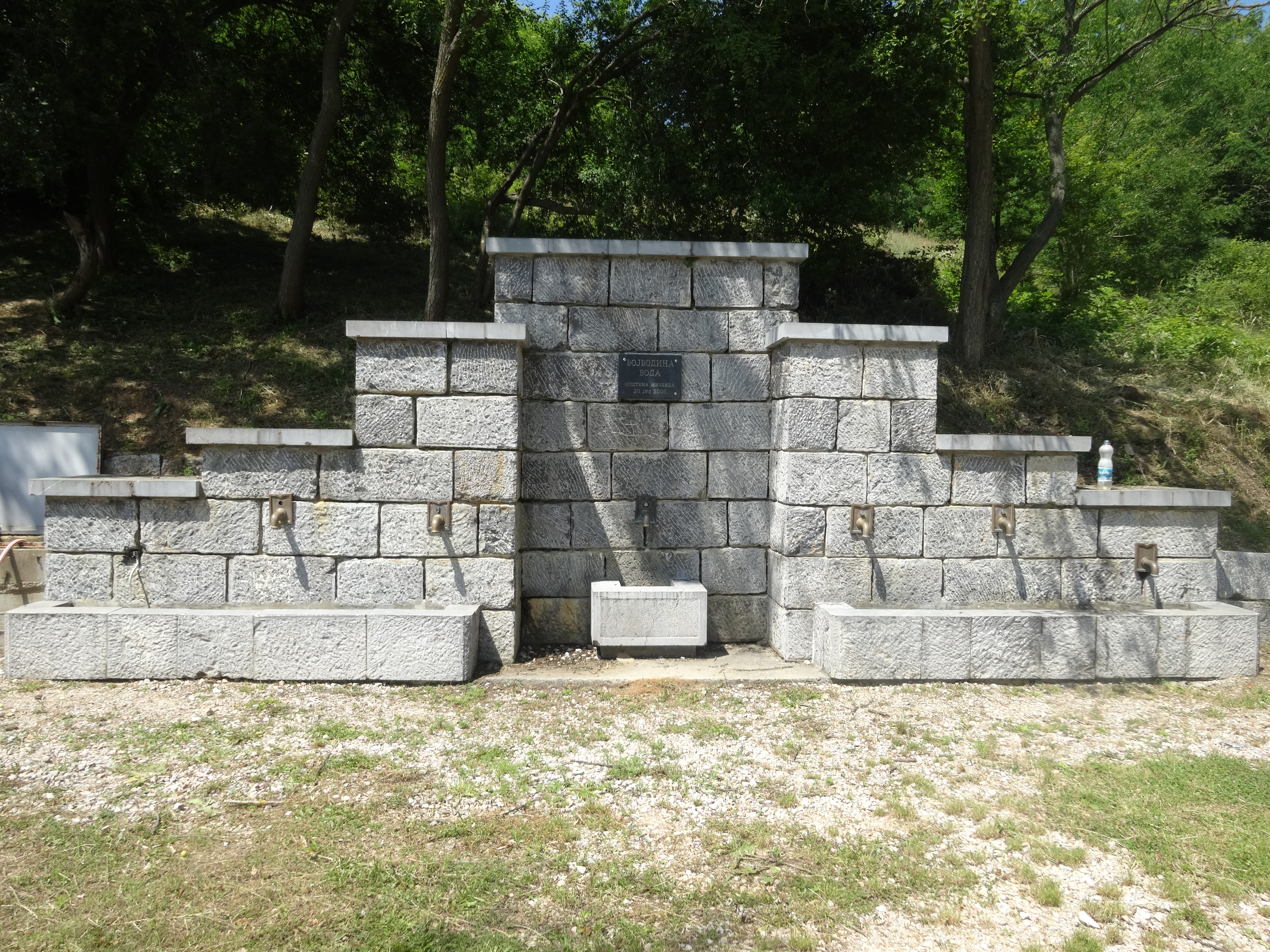 Struganik, Birth house of Živojin Mišić